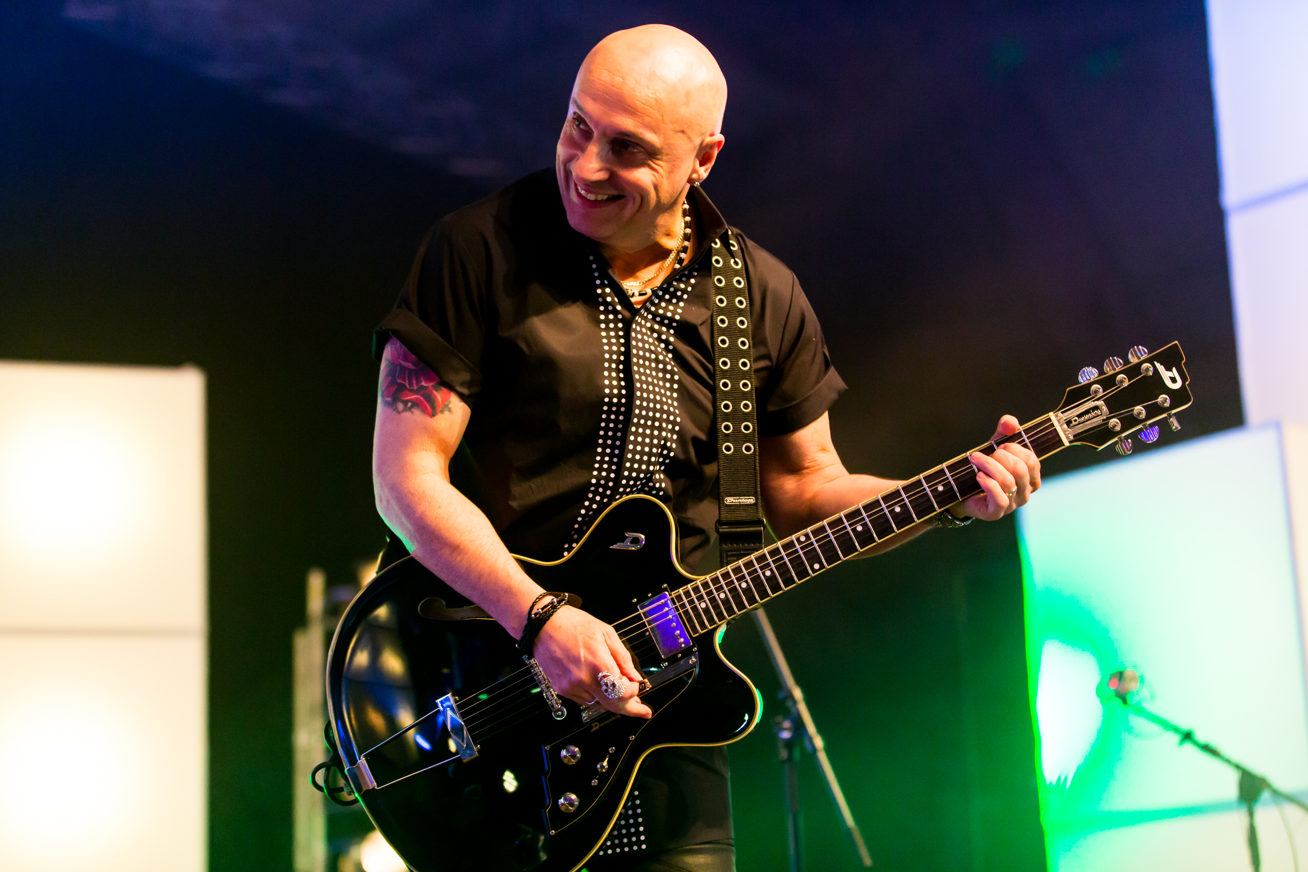 RPR1 90er Festival Maimarkthalle Mannheim Eloy, LayZee aka Mr. President, Nana, Right Said Fred, Snap! feat. Penny Ford during RPR1 90er Festival at Maimarkthalle, Mannheim, Baden-Württemberg, Germany on 2015-03-14, Photo: Sven Mandel